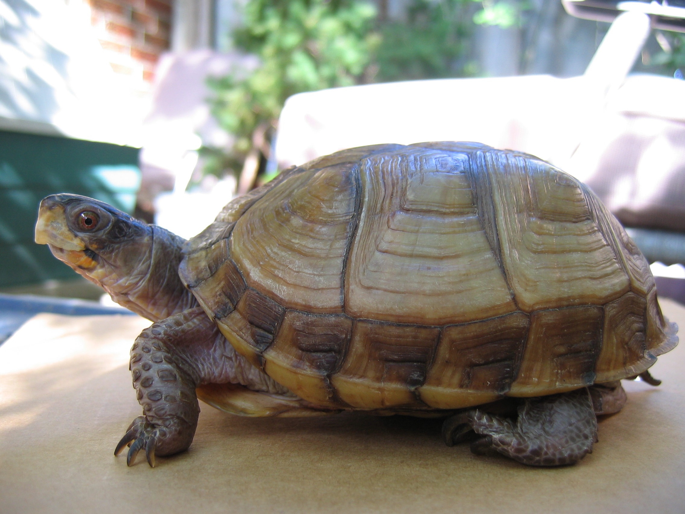 A female North American three-toed box turtle (Terrapene carolina triunguis), approximately 20 years old. She is an indoor pet. Camera: Canon PowerShot A80, photo taken on September 20, 2005. Category:Terrapene carolina triunguis.